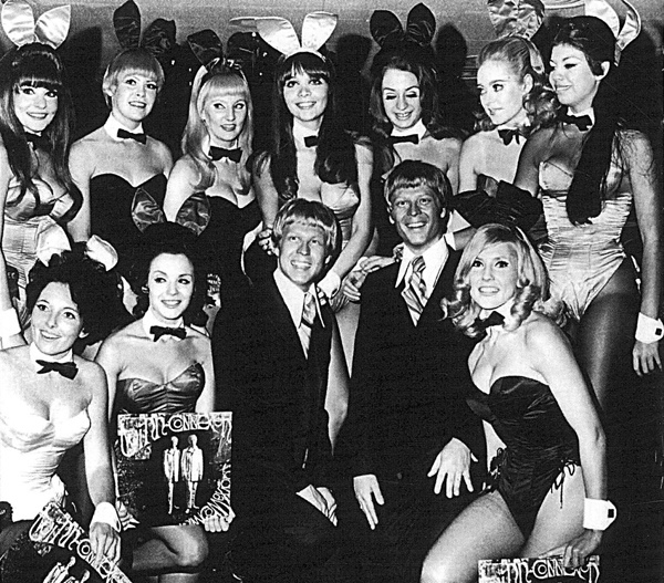 Jay and Jerry Hopkins of Twinn Connexion at the release party for their debut album.